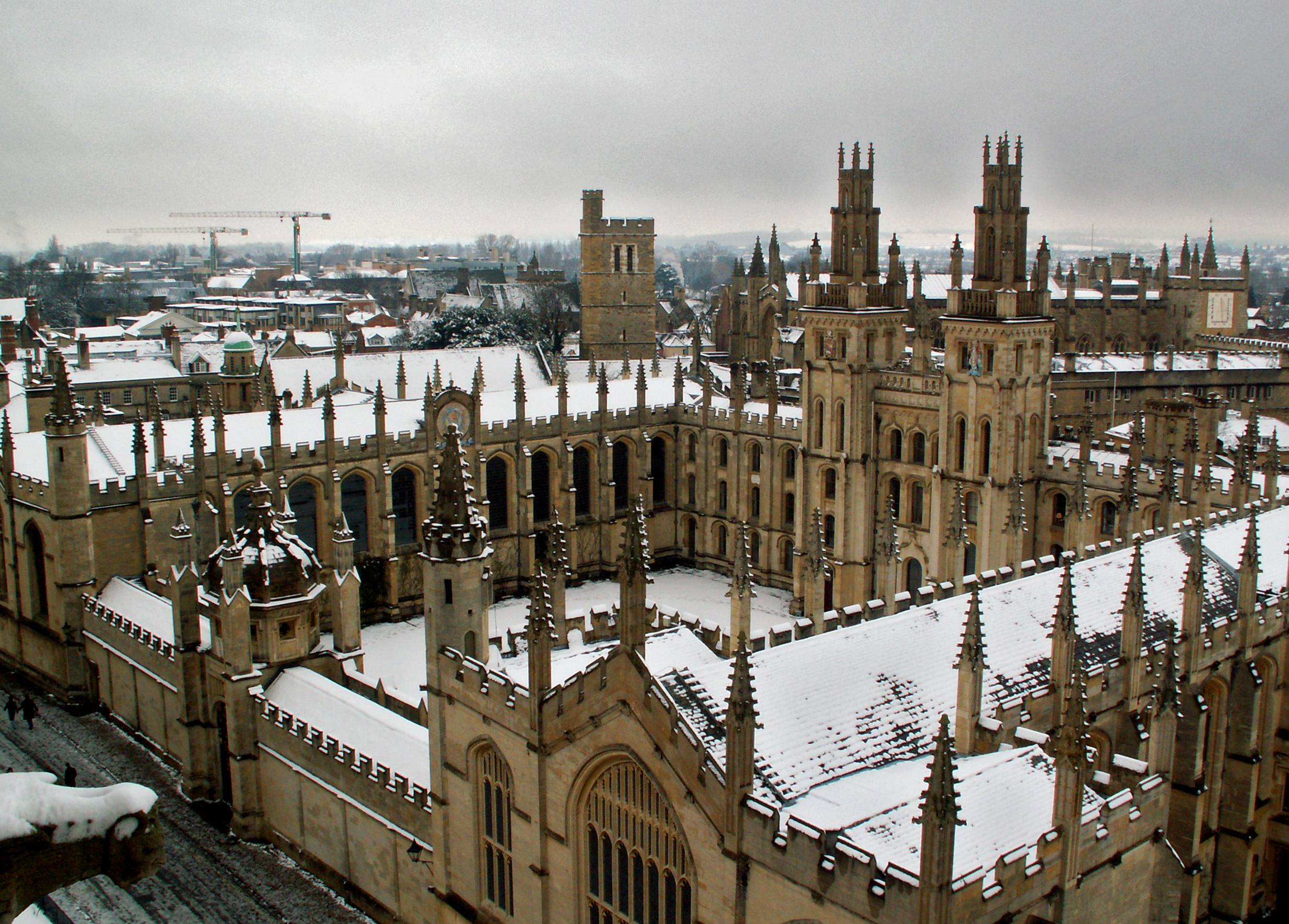 A view of All Souls College in winter